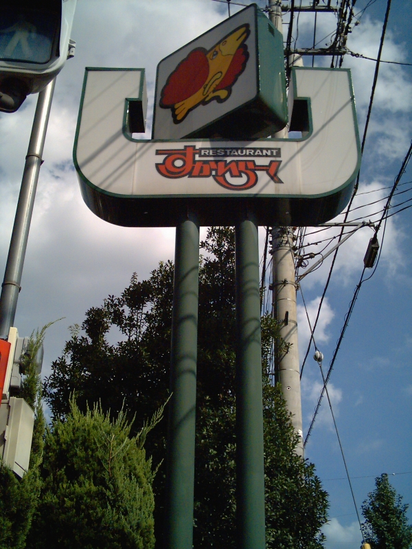 Skylark_Restaurant_neon tokorozawa City photography day, 2006.9.10. photography person Tokoroten